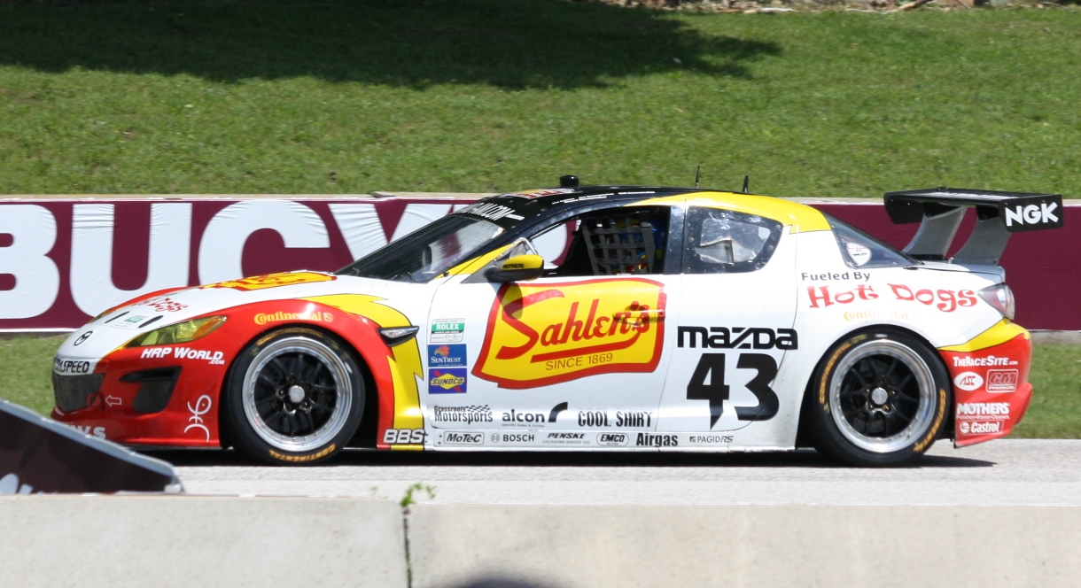 The GT sports car of Joe and Will Nonnamaker racing at an event at Road America.